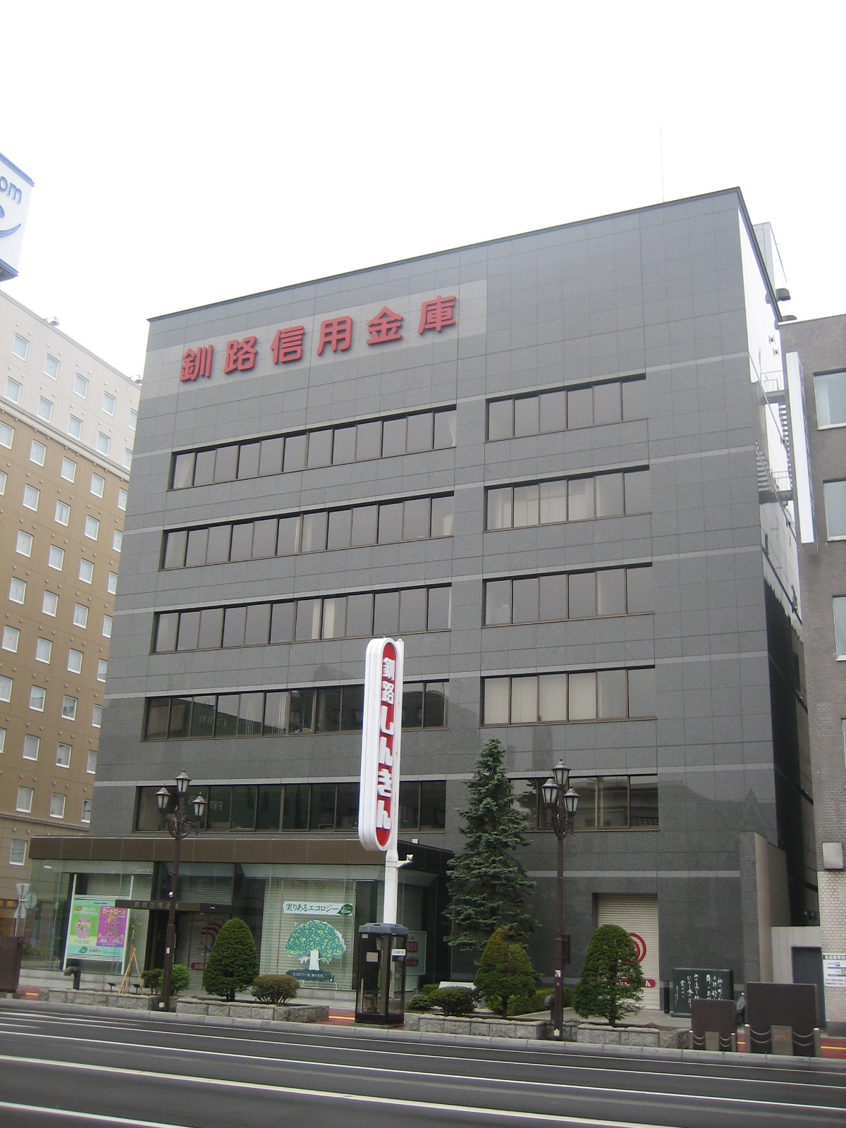 Kushiro shinkin bank